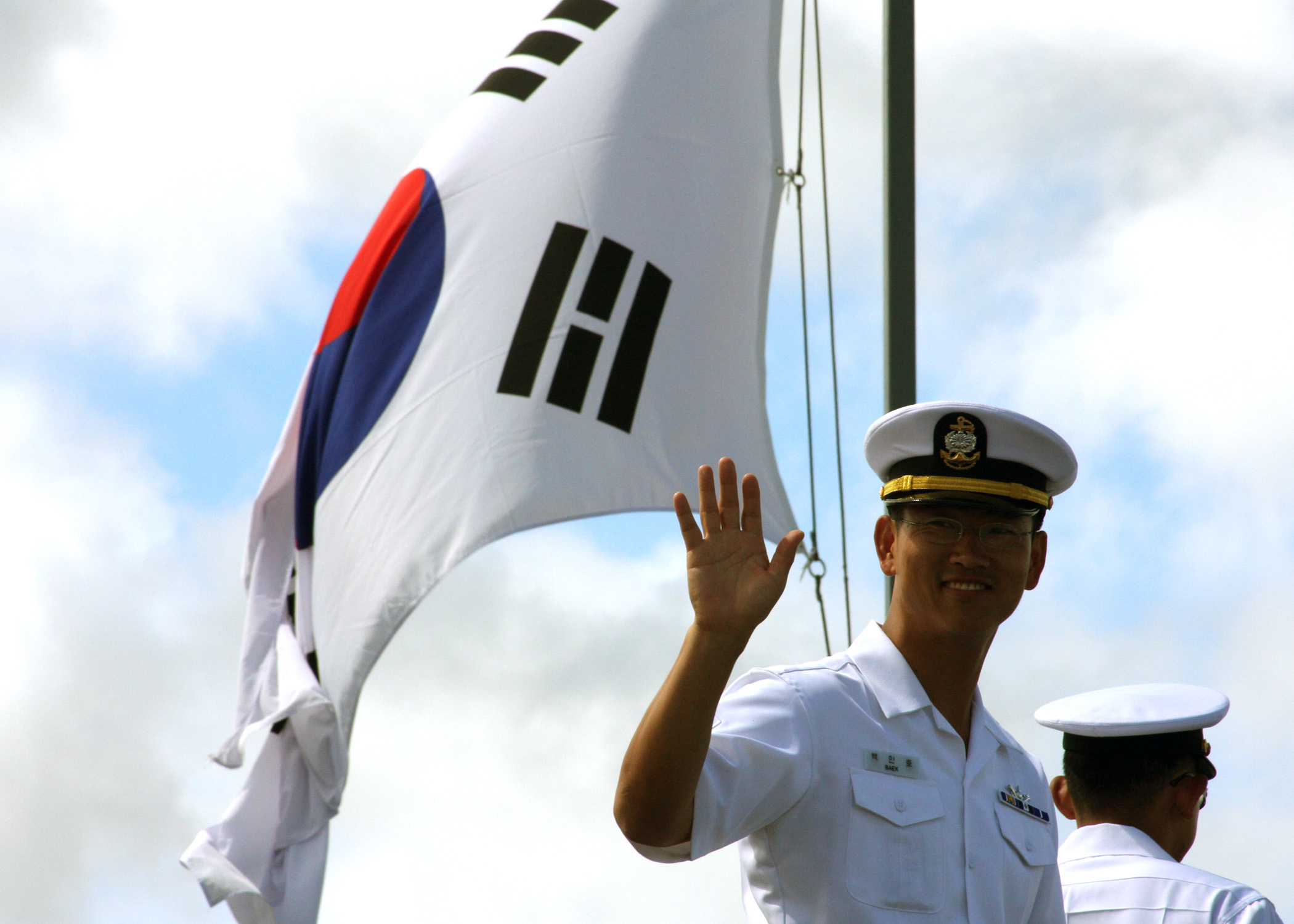 080624-N-0879R-003 A Republic of Korea sailor, onboard the destroyer ROKS Munmu the Great (DDH 976), waves to onlookers pier side shortly after the ship, along with ROKS Yang Manchoon (DDH 973), arrived at Naval Station Pearl Harbor, Hawaii, June 24, 2008, during the Rim of the Pacific (RIMPAC) 2008 exercise. RIMPAC, the world's largest multinational exercise, is scheduled biennially by the U.S. Pacific Fleet. Participants included the United States, Australia, Canada, Chile, Japan, the Netherlands, Peru, Republic of Korea, Singapore, and the United Kingdom. This year’s exercise was held from June 29- July 31, 2008. (U.S. Navy photo by Chief Mass Communication Specialist David Rush/Released) Photographer's Name: MCC David Rush Date Shot: 6/24/2008 Date Posted: 9/25/2008 Location: Pearl Harbor